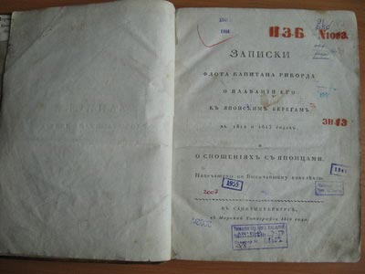 The lifeteme edition of the book about travel to Japan by P. Rikord. St.Petersburg, 1816